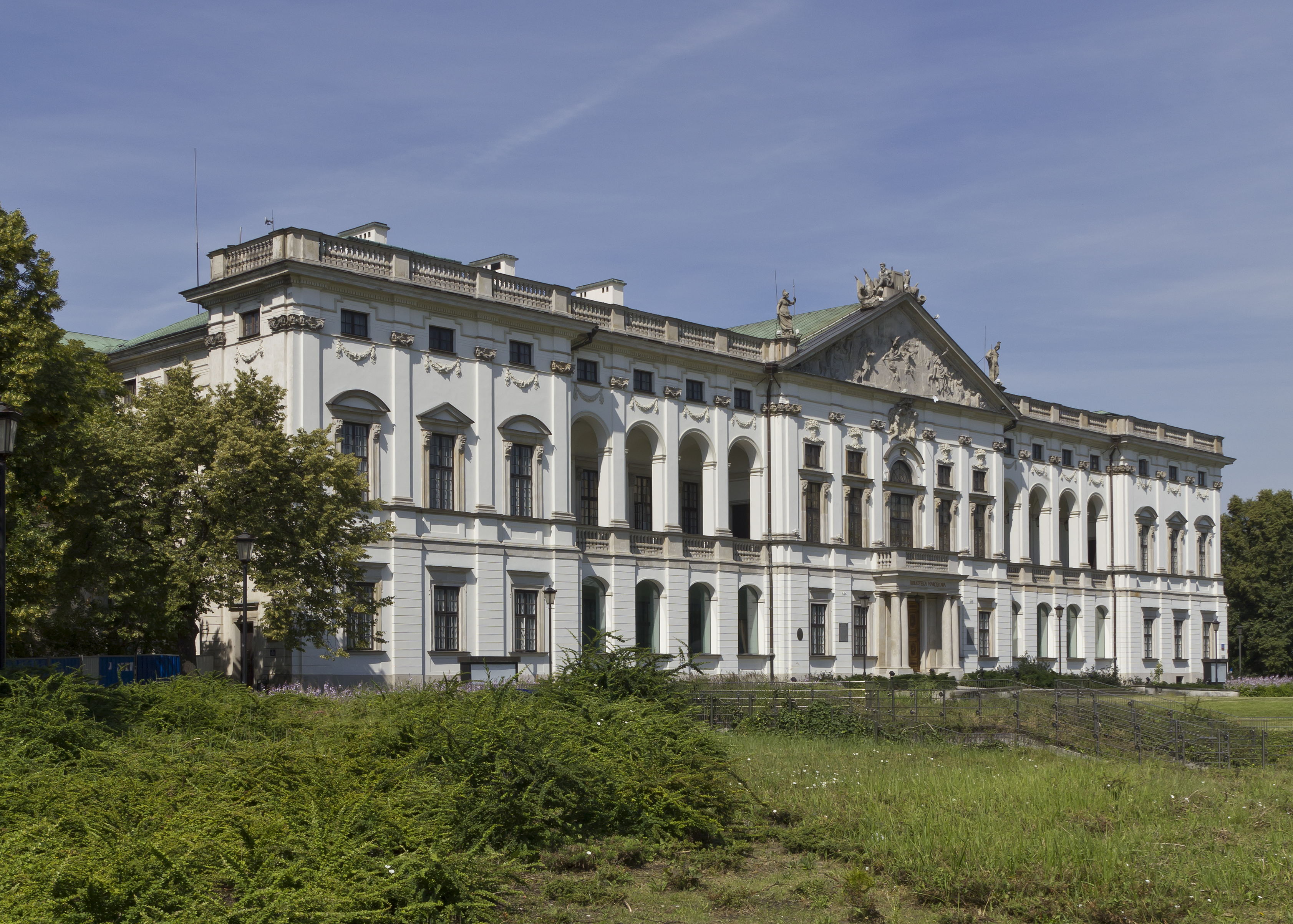 Krasiński Palace (National Library) in Warsaw (Poland)